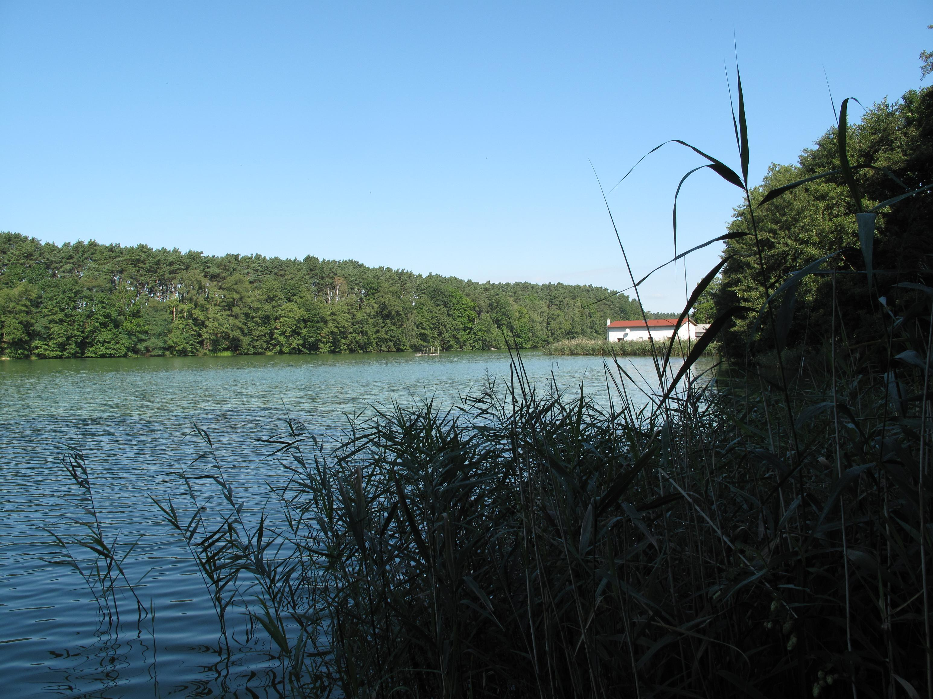 The Oelsener See is a lake in the District Oder-Spree, Brandenburg, Germany. The lake covers 0,94 km² and is situated in the Schlaube Valley Nature Park.